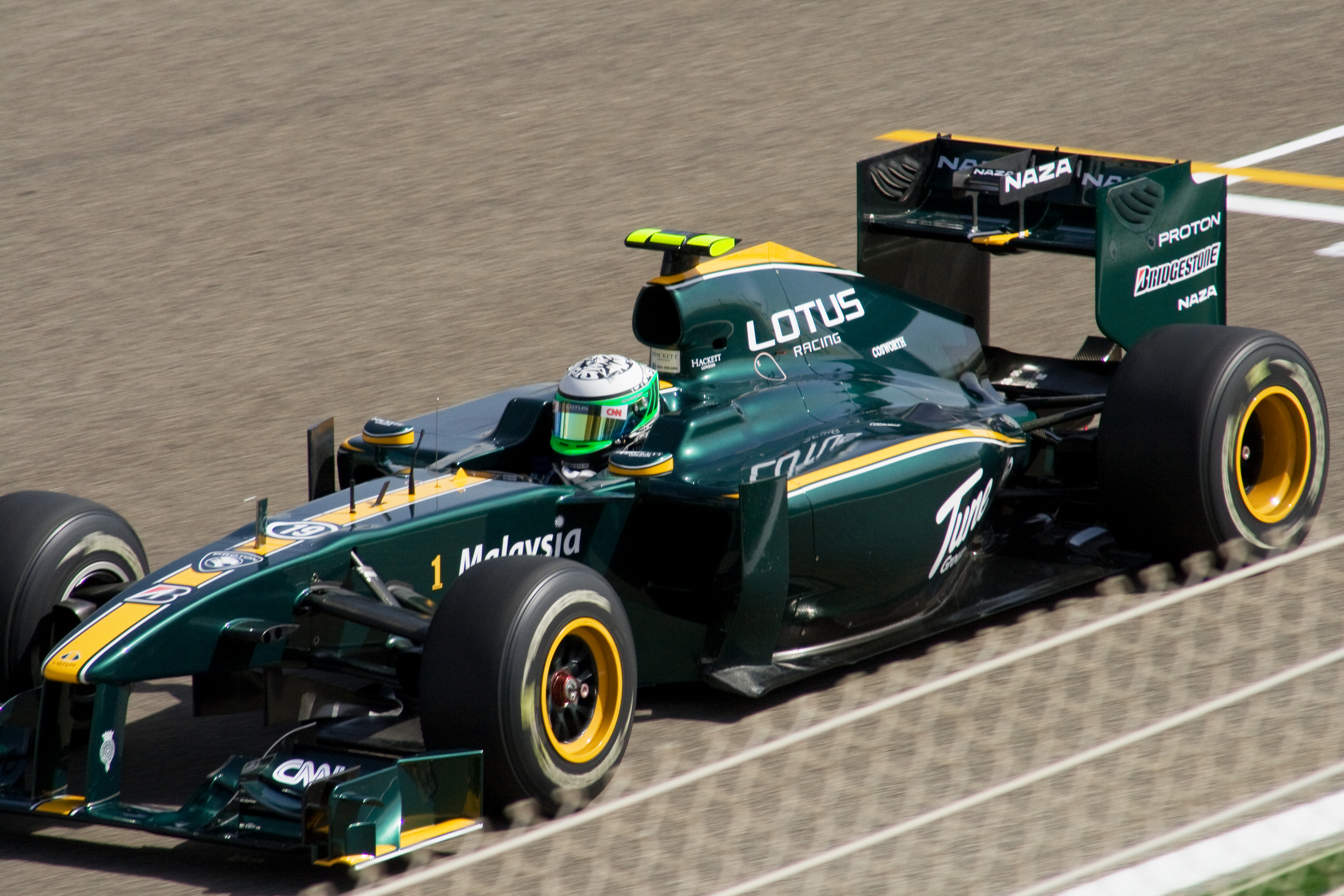 Heikki Kovalainen driving for Lotus Racing at the 2010 Bahrain Grand Prix.